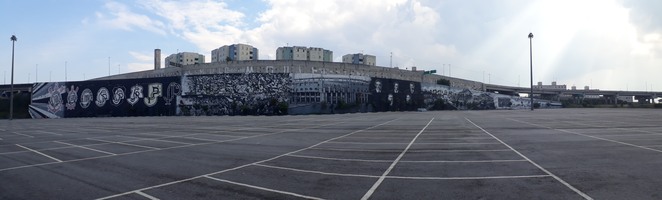 Parking with graphite wall - Corinthians Arena